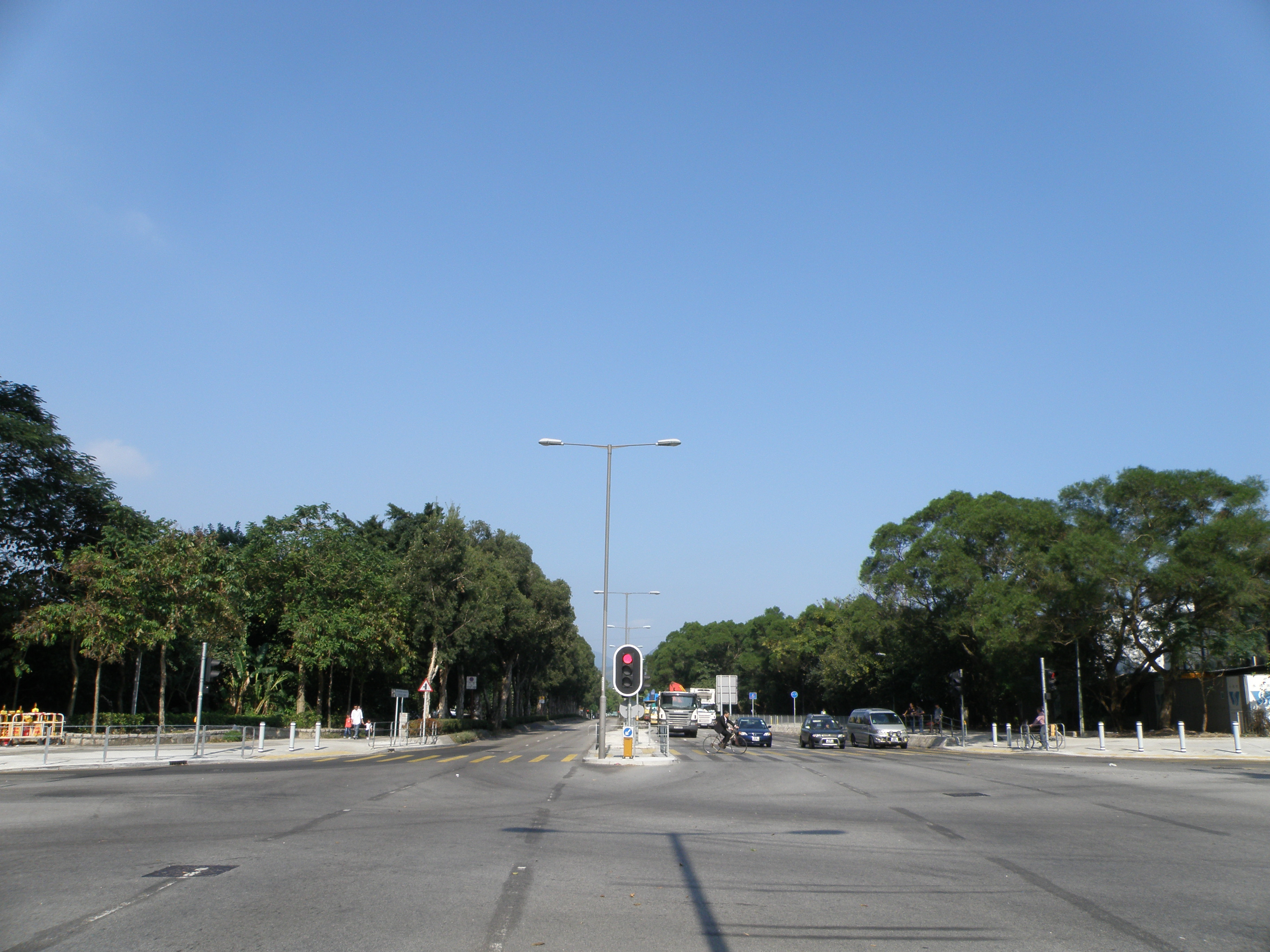 Sha Tau Kok Road - Lung Yeuk Tau section in Fanling, Hong Kong.